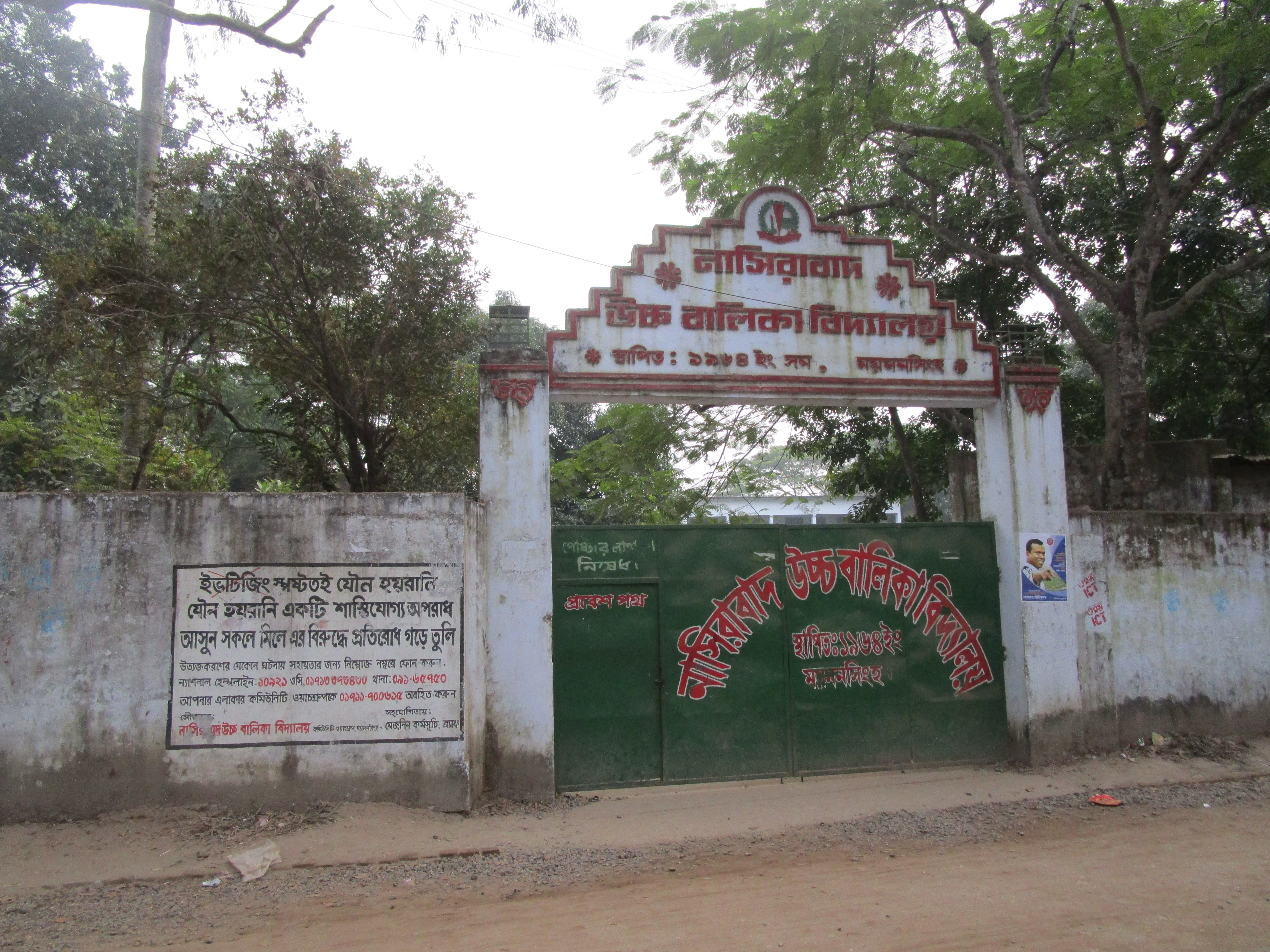 Nasirabad Girls High School at Mymensingh City.